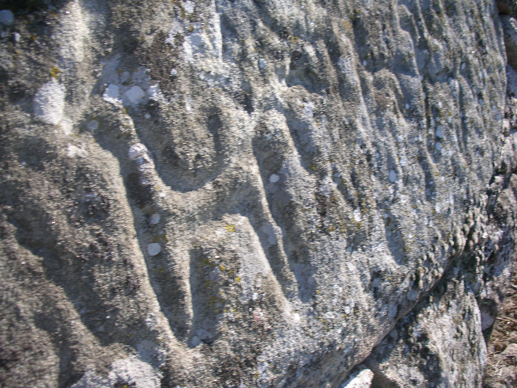 Petrogliphs in Arabilejo field by Yecla